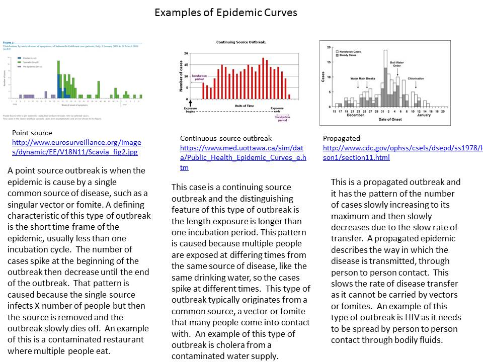 The image is about various different types of outbreaks